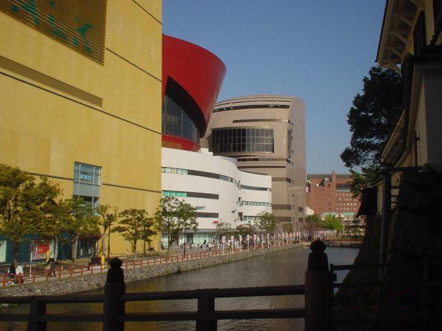 Riverwalk shopping complex in Kokura ward, Kitakyushu Taken by Ian Ruxton (Historian)